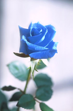 Blue rose Image derived from the PD Image:Red rose.jpg